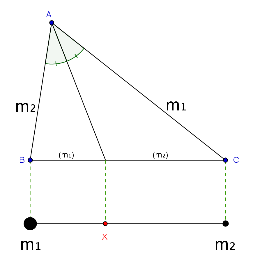 it is possible to find the center of mass by using a triangle, whitch side length are propotional to opposite masses